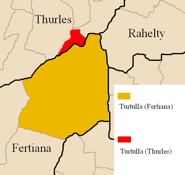 Map highlighting Turtulla townland in Thurles civil parish